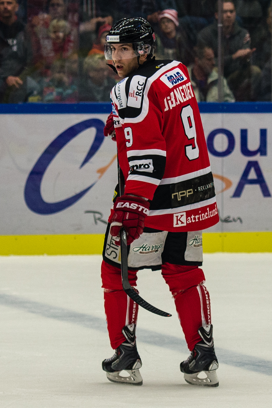 Justin DiBenedetto playing for Örebro HK in SHL (Sweden's highest league) against MODO Hockey in Behrn Arena 2013-10-05.